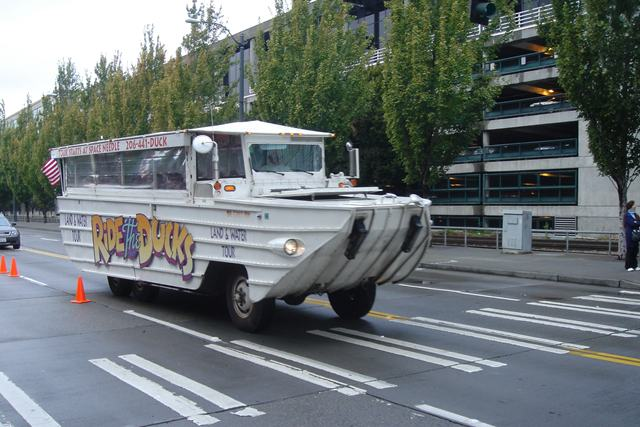 Ride the Ducks, Seattle amphibious vehicle tour